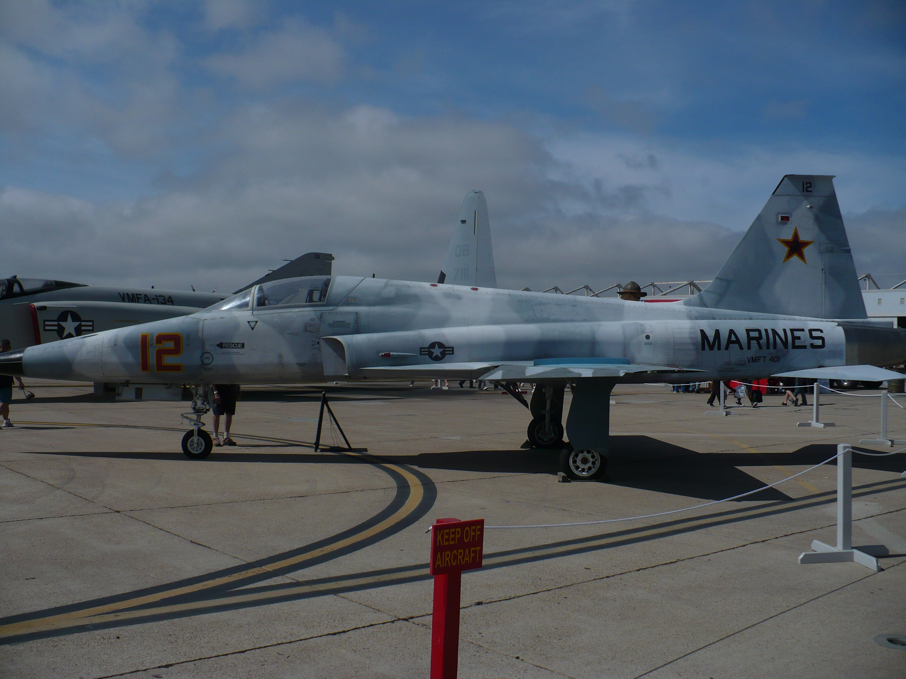 An F-5 Tiger on display at the MCAS Miramar Airshow on 03 October 2008